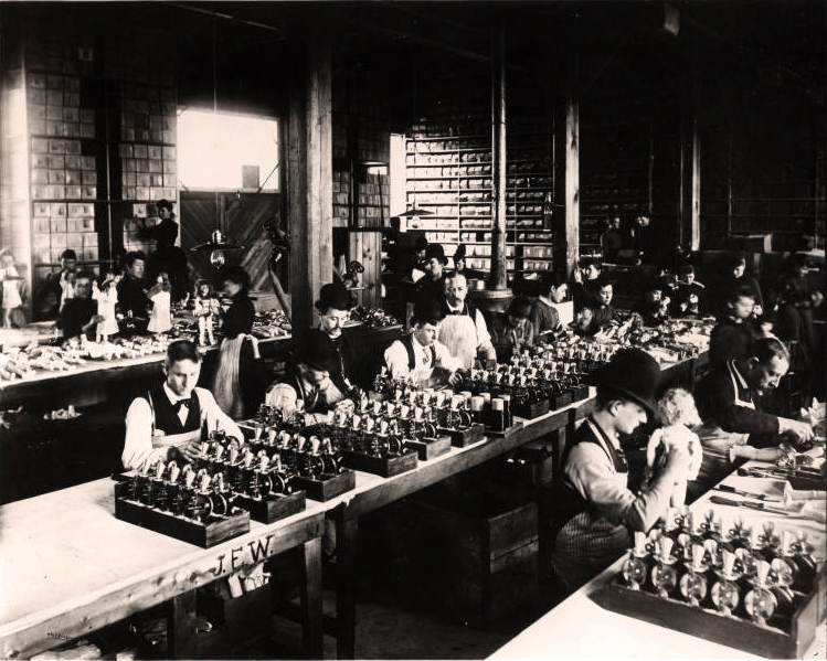 Photograph of the assembly of Edison's Talking Dolls.